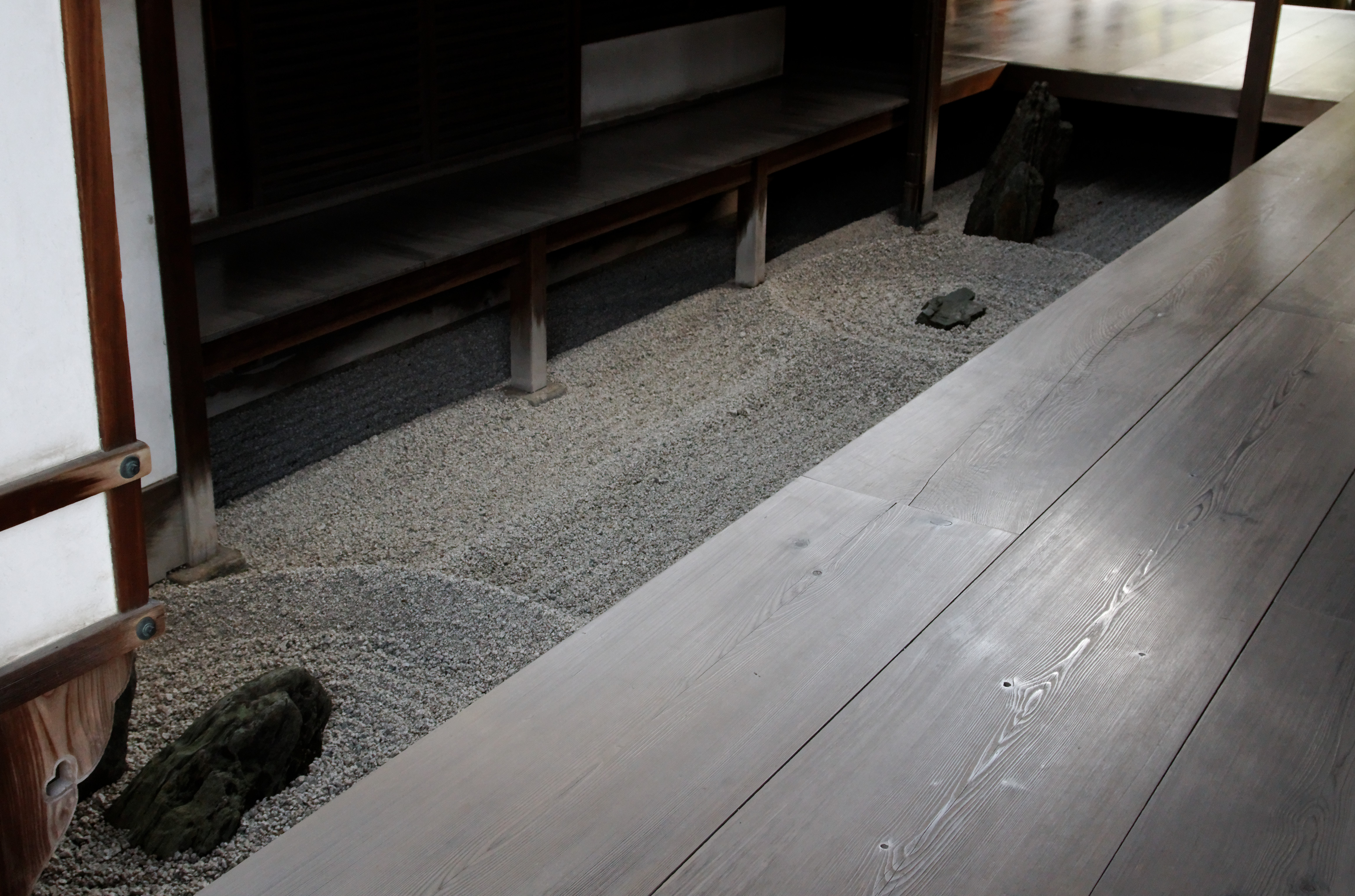 Totekiko - reportedly, the smallest stone garden in Japan